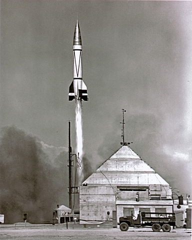 The American launch of a V2 rocket (No. 47) carried, among other experiments, the Blossom IV-B capsule with the monkey, Albert II, the first monkey in space.